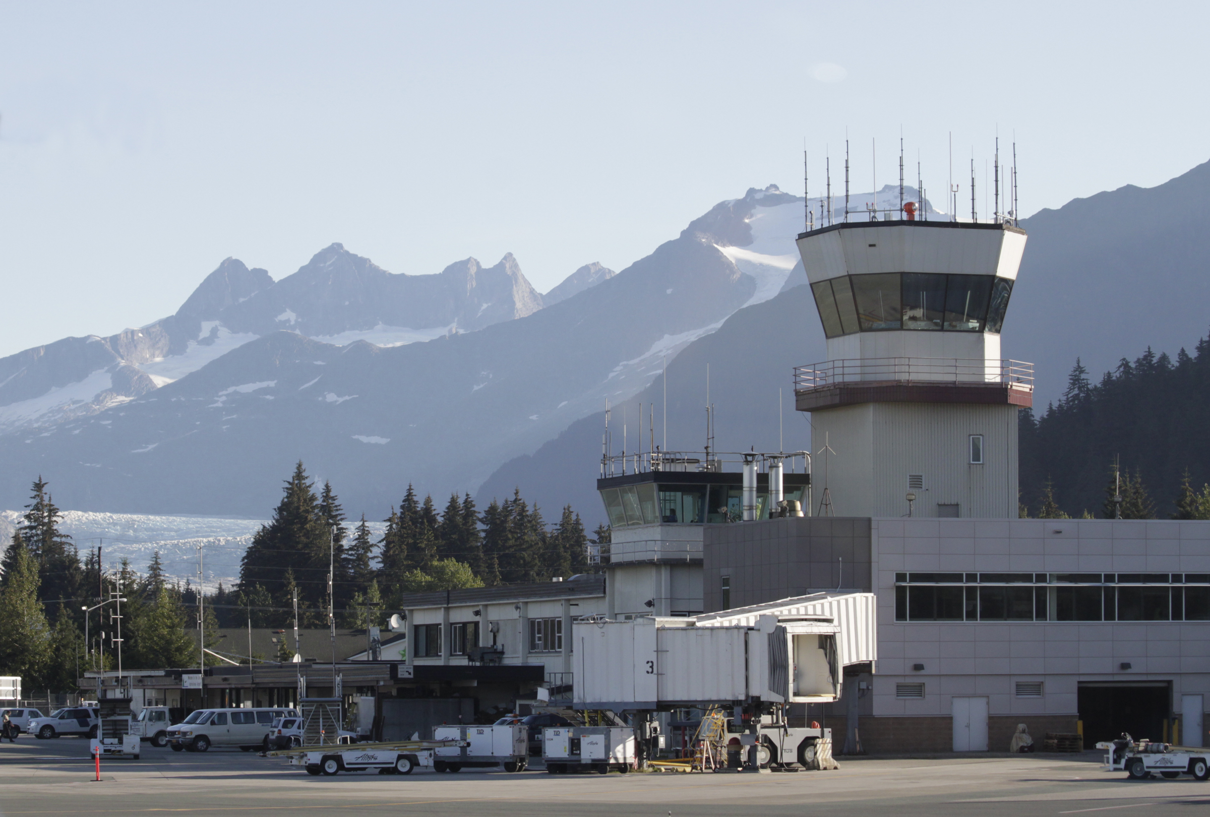 The Juneau International Airport control tower is seen with Mendenhall Glacier in the background Saturday, Aug. 3, 2014. (James Brooks photo)